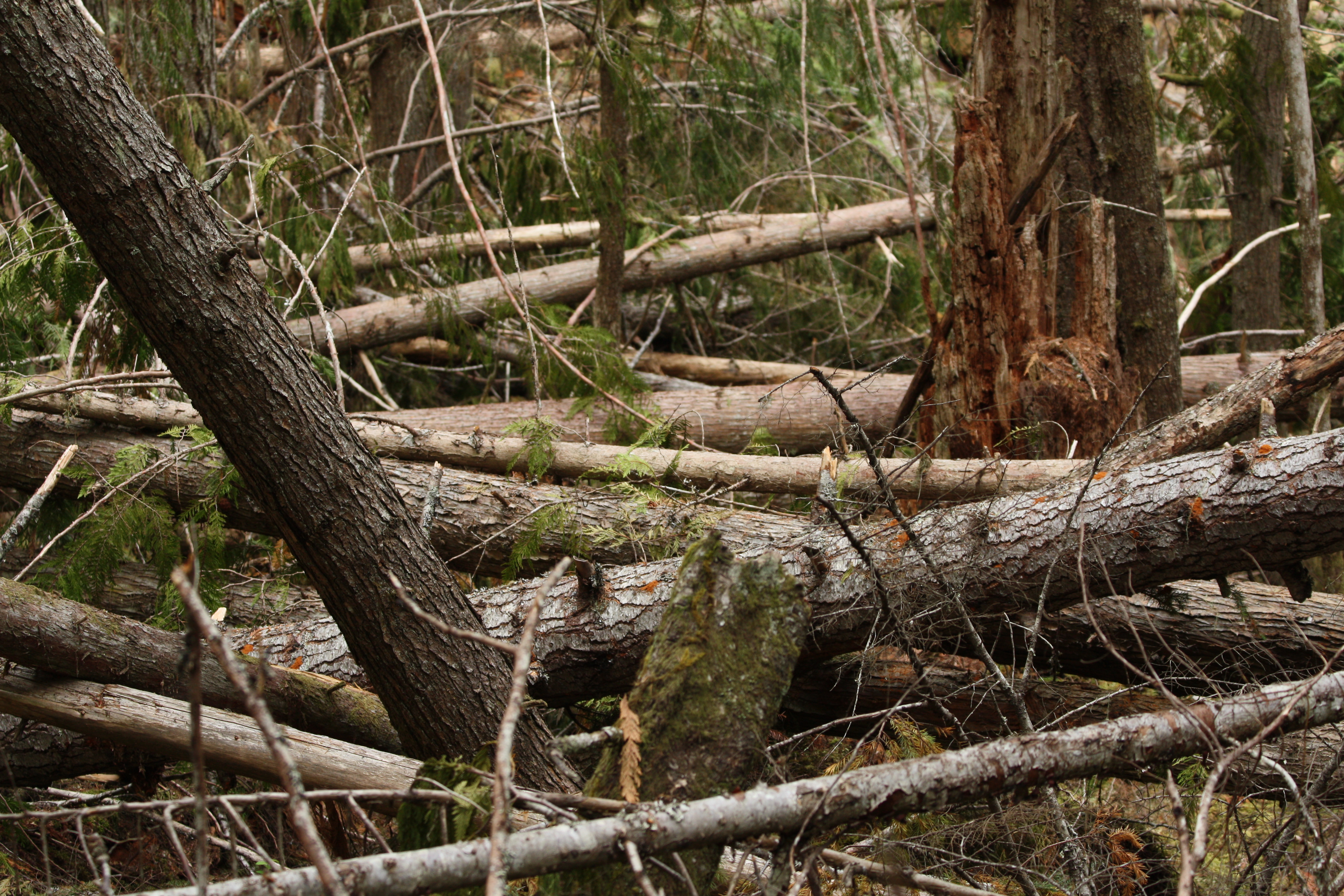 Windthrow; coarse woody debris Tsuga heterophylla (Western Hemlock, Pacific Hemlock, Lowland Hemlock) and Thuja plicata (Western Redcedar) felled by the 2007-03-12 windstorm[1